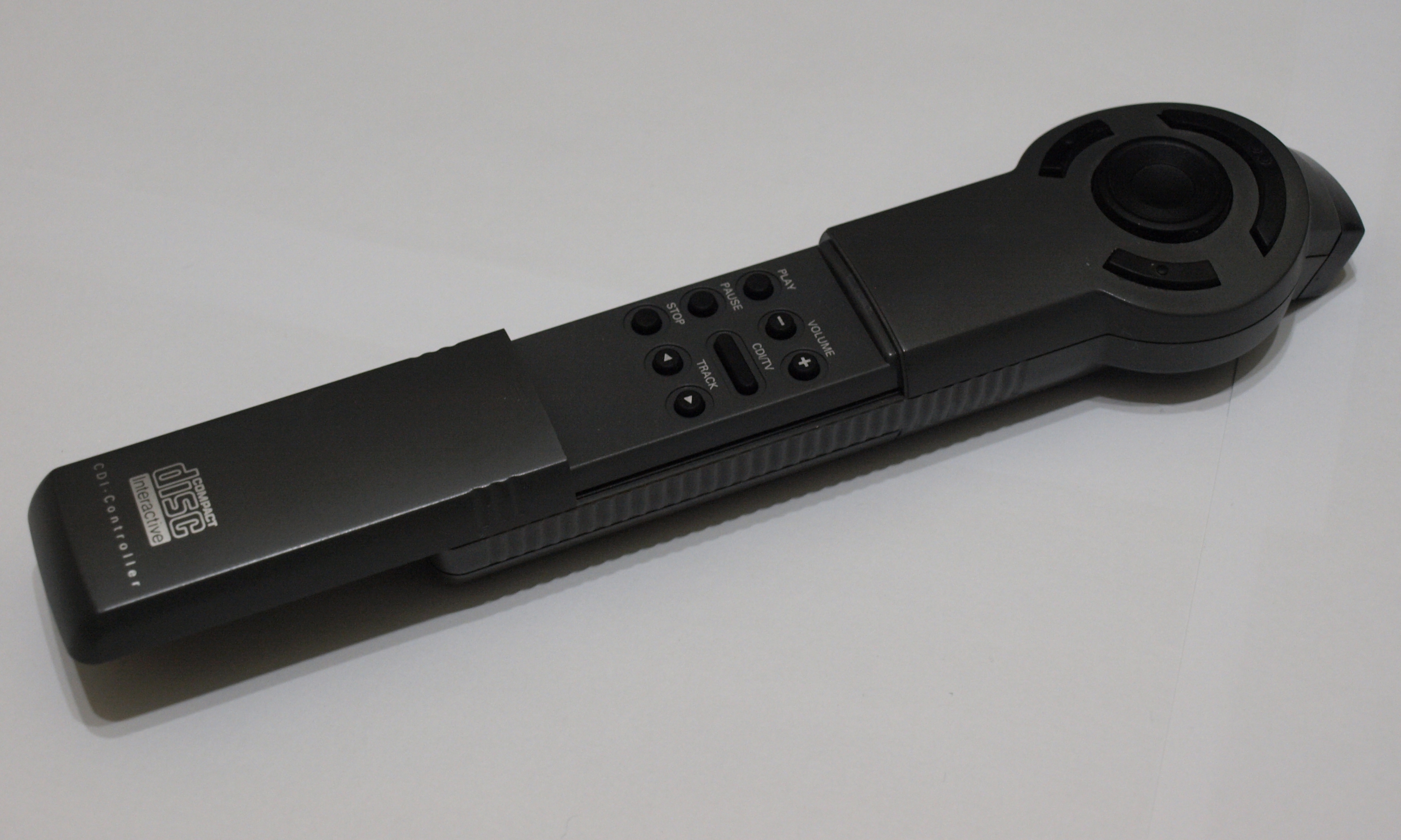 Here is a 3rd image of the "CD-i Commander" remote control for Philips CD-i. Here, the sliding cover is moved to show buttons used for playing Audio CDs.